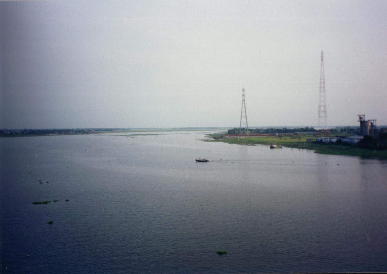 Picture of Meghna River, one of the major rivers of Bangladesh, taken from Meghna Bridge.